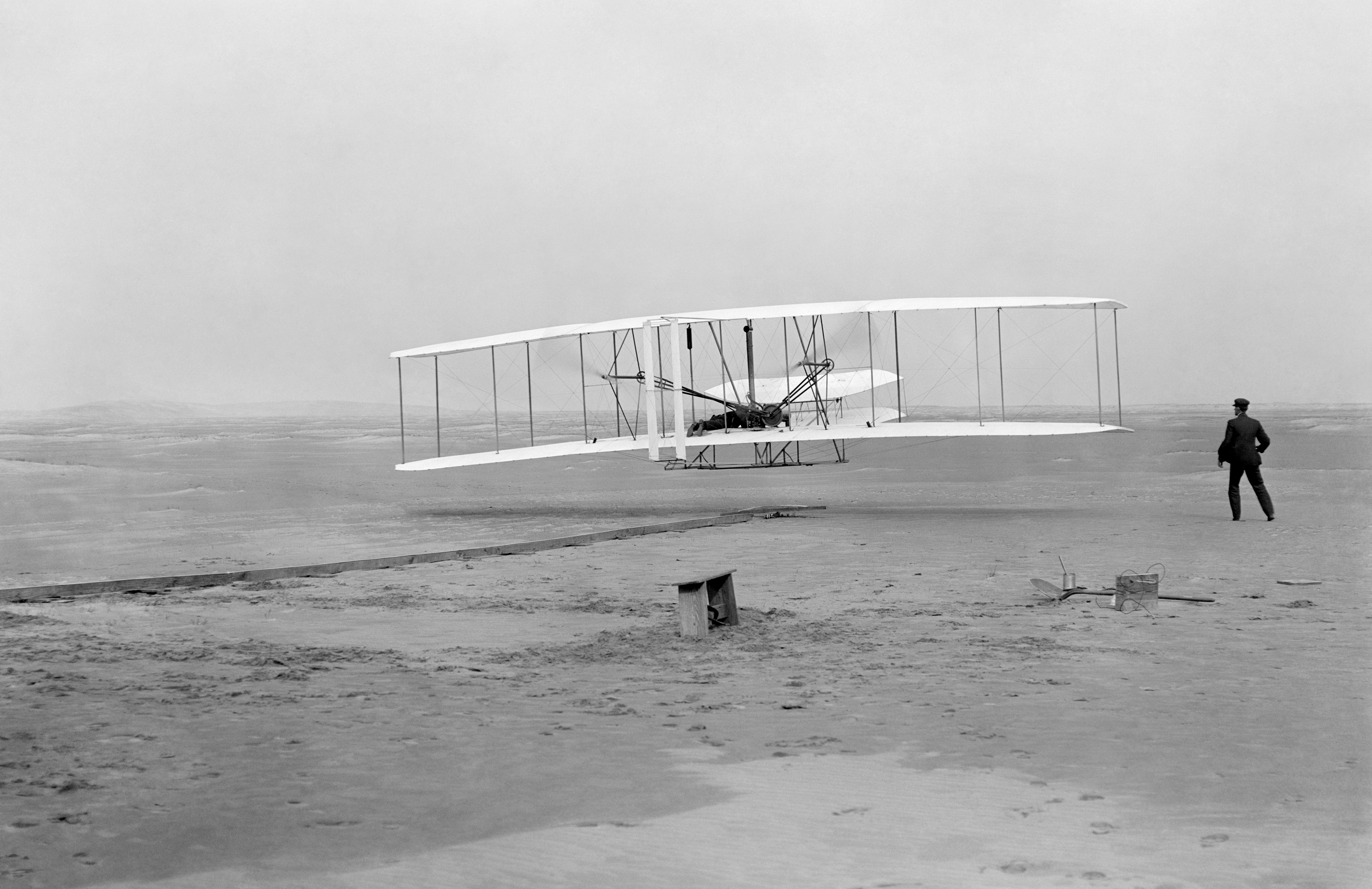 First successful flight of the Wright Flyer, by the Wright brothers. The machine traveled 120 ft (36.6 m) in 12 seconds at 10:35 a.m. at Kitty Hawk, North Carolina. Orville Wright was at the controls of the machine, lying prone on the lower wing with his hips in the cradle which operated the wing-warping mechanism. Wilbur Wright ran alongside to balance the machine, and just released his hold on the forward upright of the right wing in the photo. The starting rail, the wing-rest, a coil box, and other items needed for flight preparation are visible behind the machine. This was considered "the first sustained and controlled heavier-than-air, powered flight" by the Fédération Aéronautique Internationale.